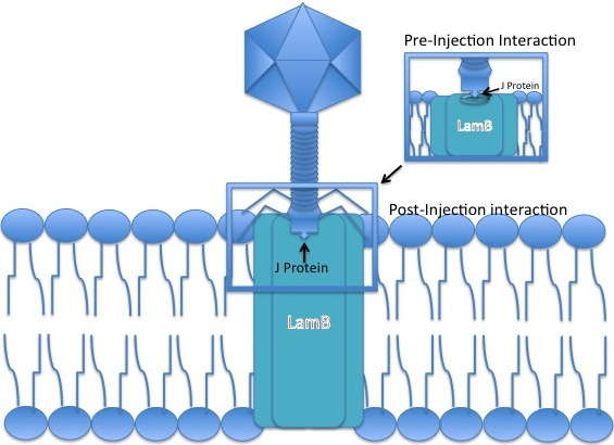 Step 4 in the mannose PTS permease transportation complex